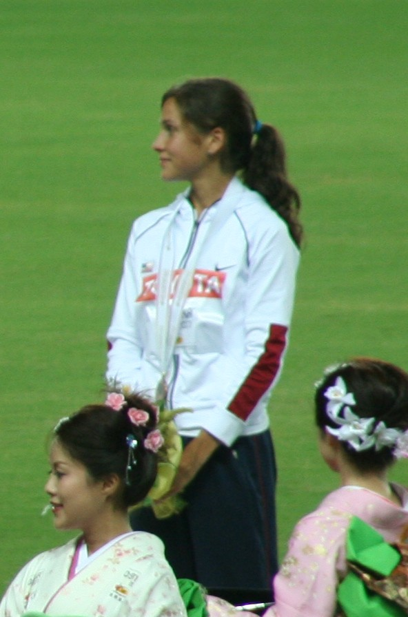 World Athletics Championships 2007 in Osaka - Kara Goucher at the Victory Ceremony for the Women's 10000 Metres